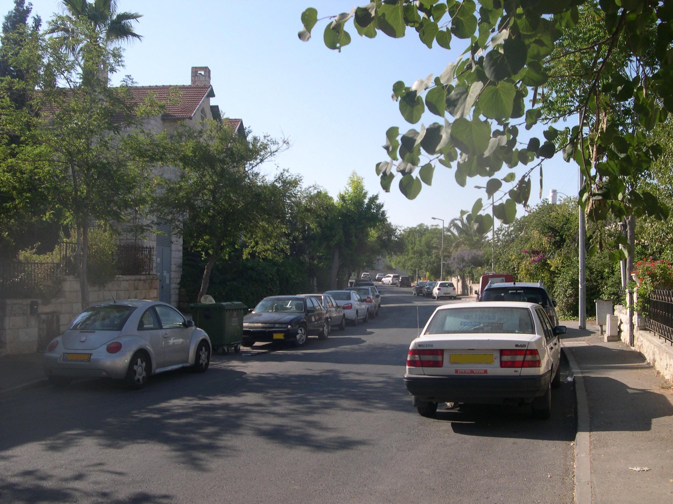 A street in Giv'at HaMivtar Jerusalem